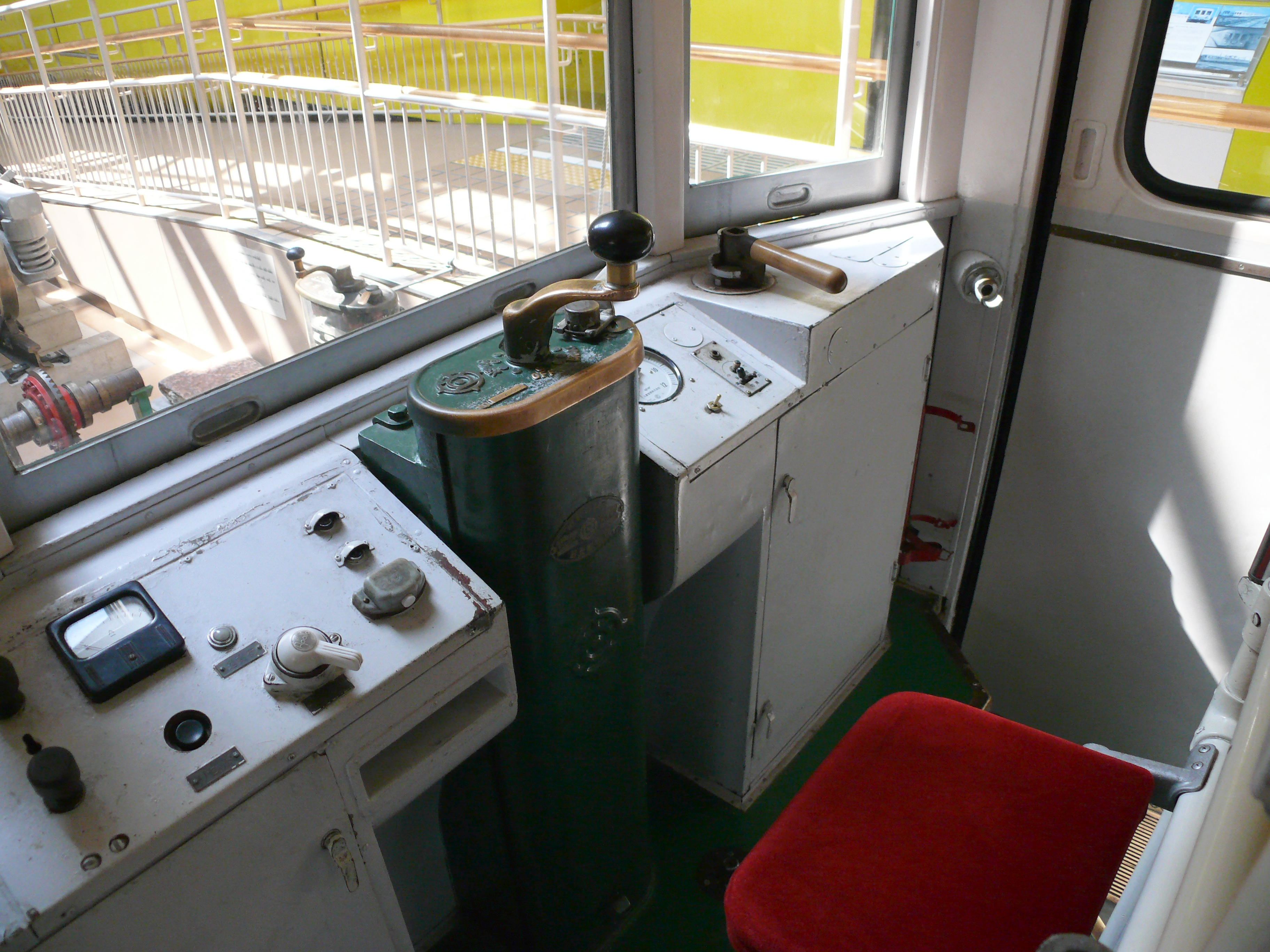 Nagoya City Tram & Subway Museum.